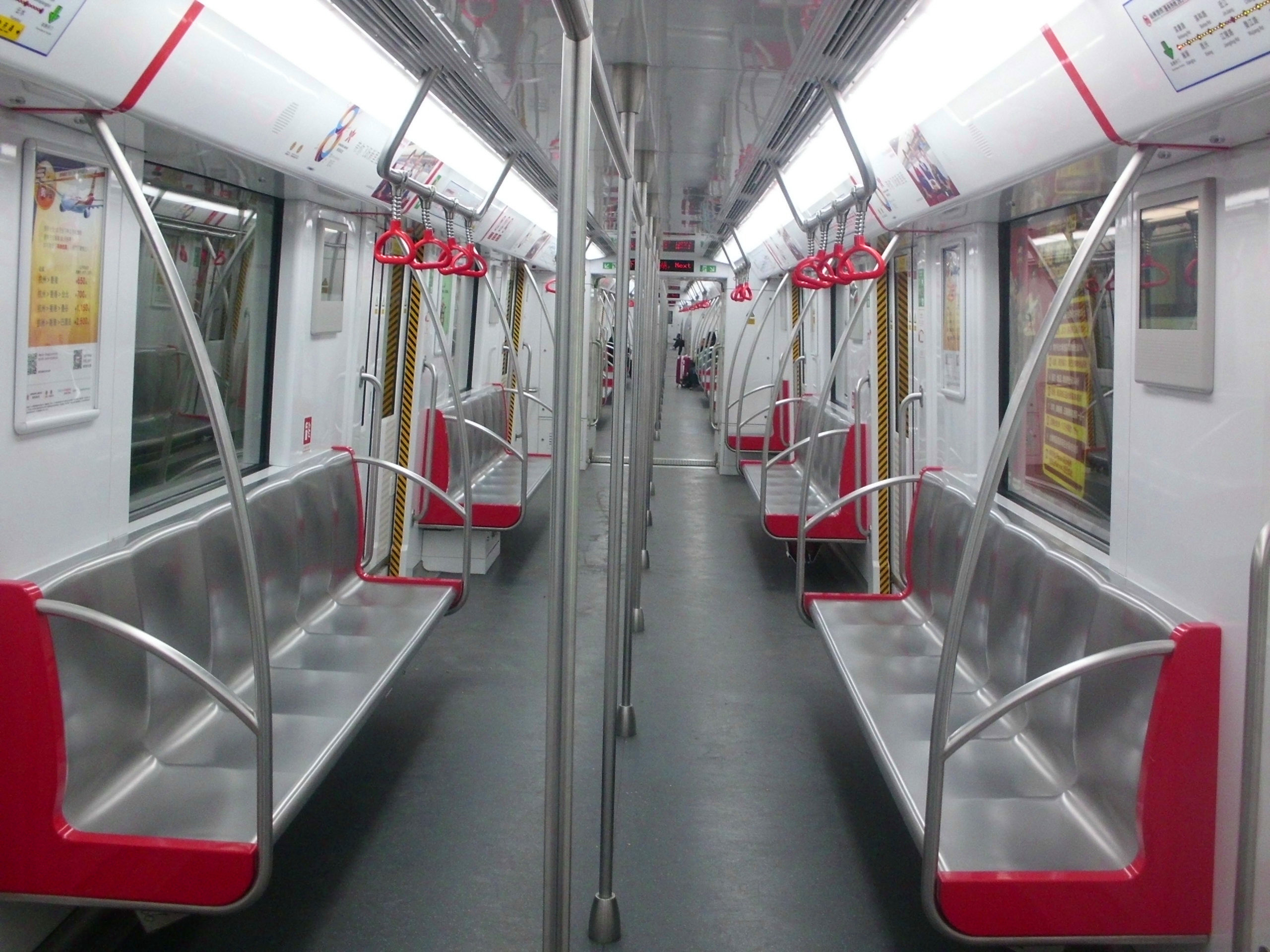 coach of Line 1, Hangzhou Metro